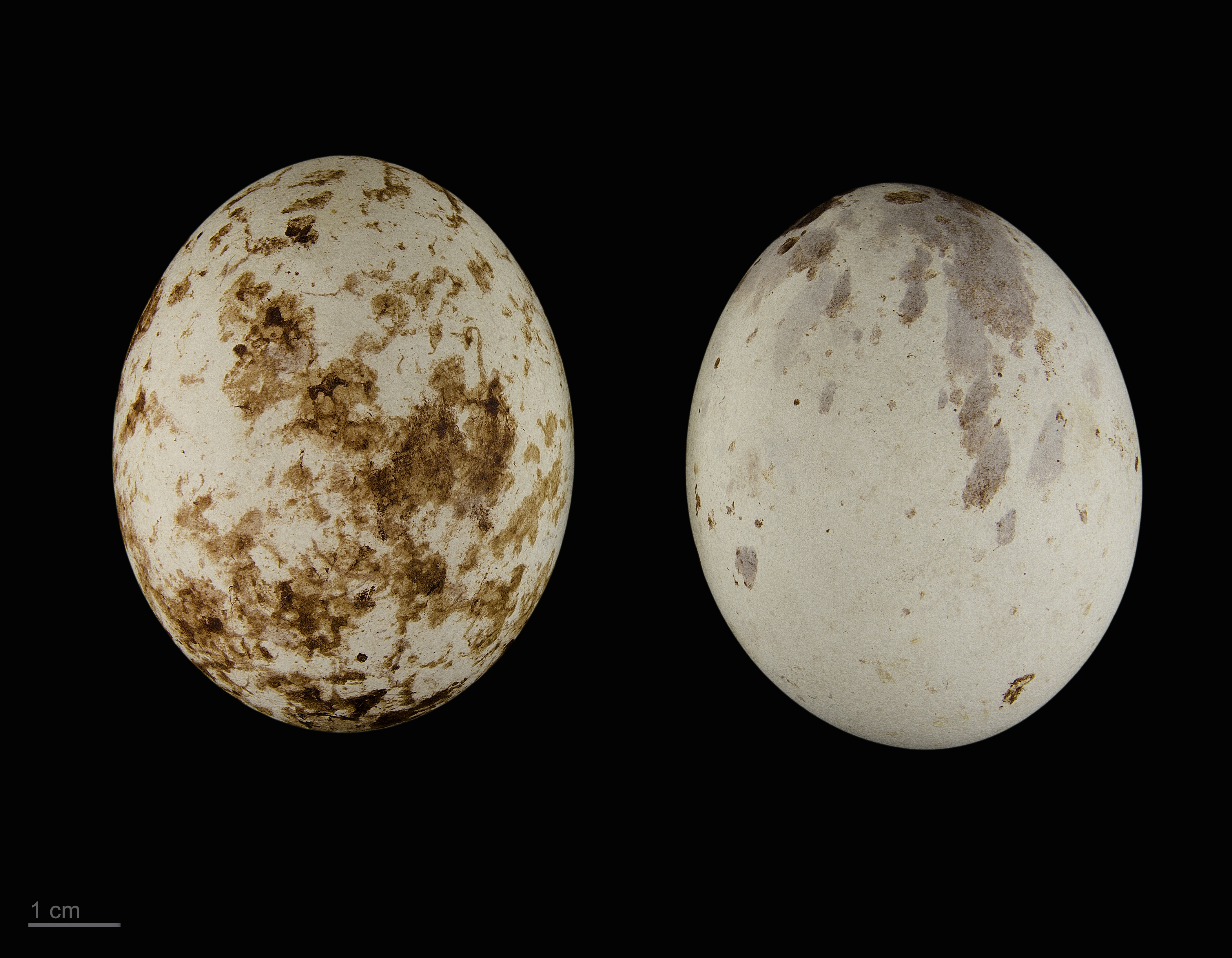 Eggs of common buzzard Two specimens of the same spawn ; collection of Jacques Perrin de Brichambaut.